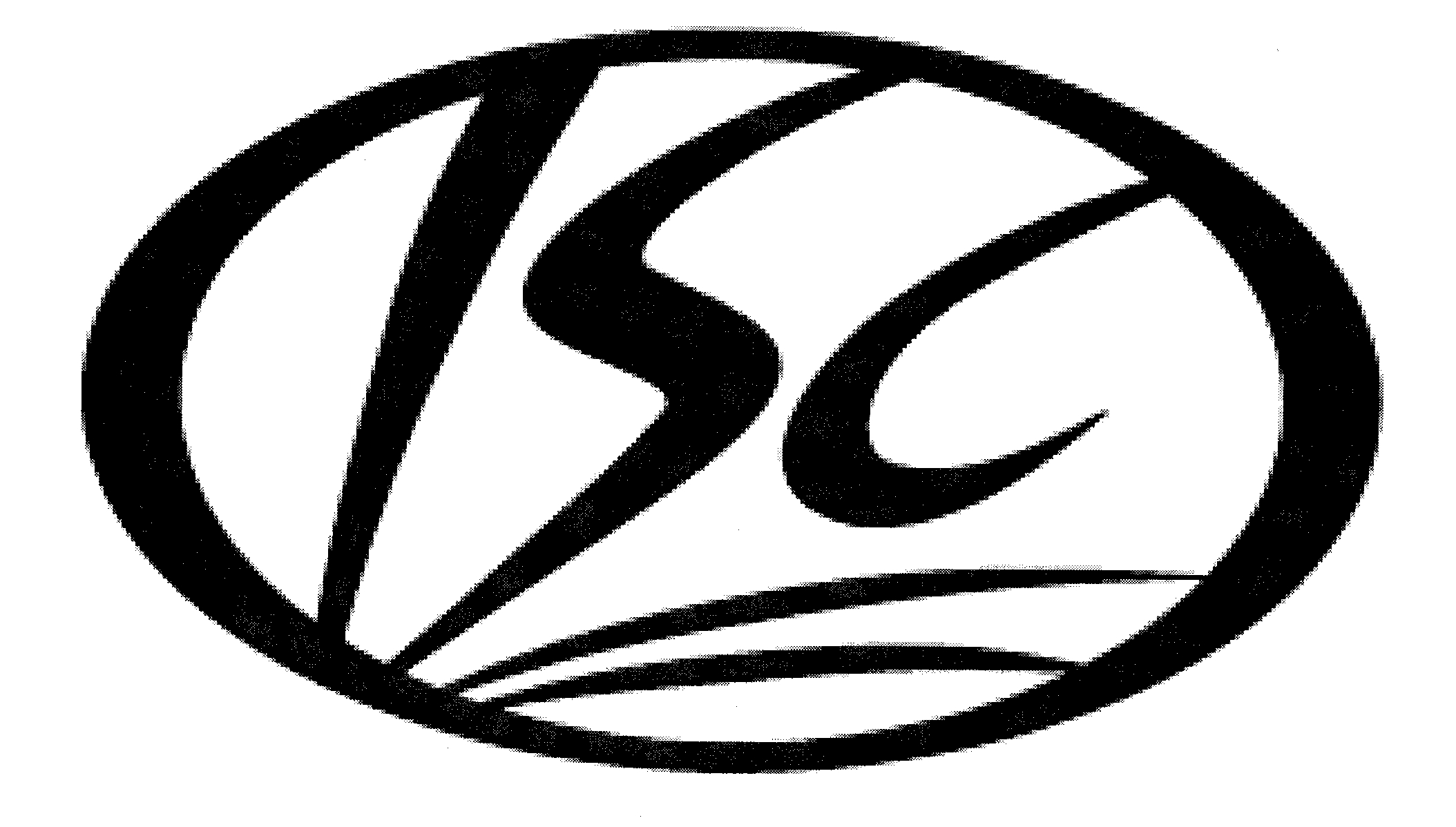 Aus apparel company ISC's old logo